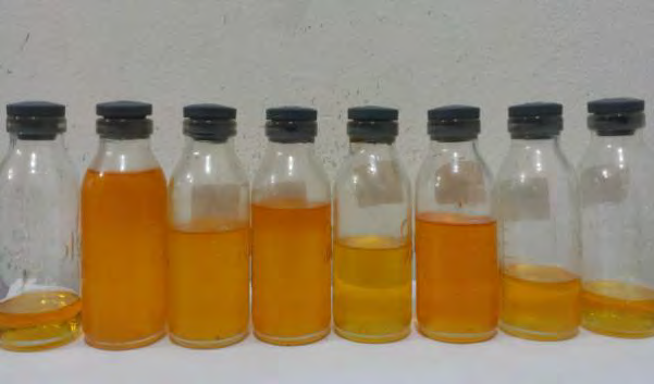 Oil from karuka nuts (Pandanus julianettii)